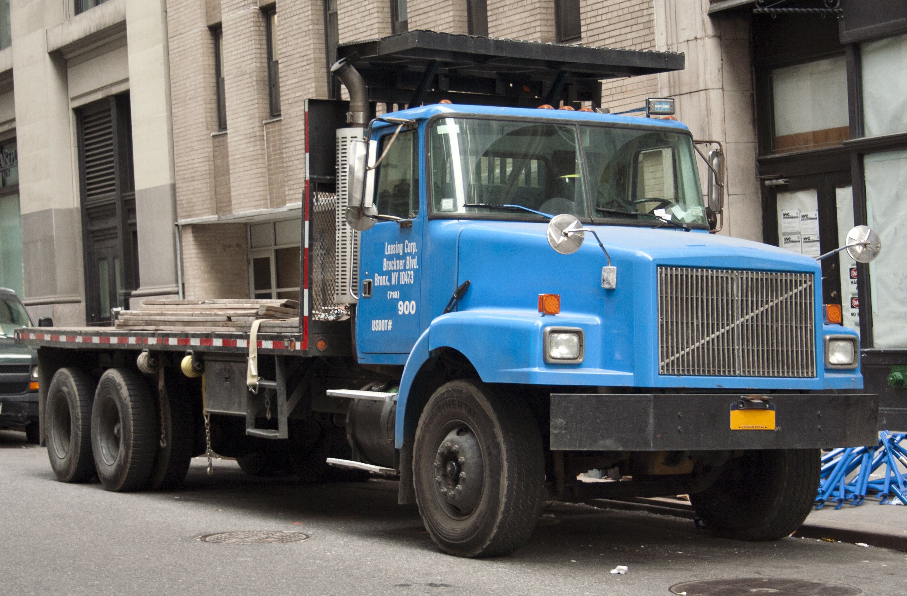 1995 White GMC WG, still with a split windshield!